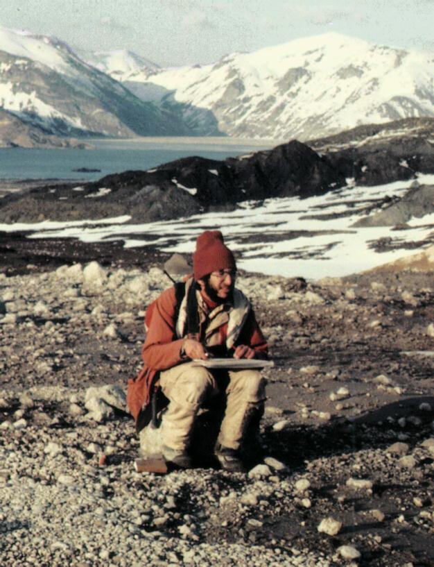 The vulcanologist Harry Glicken